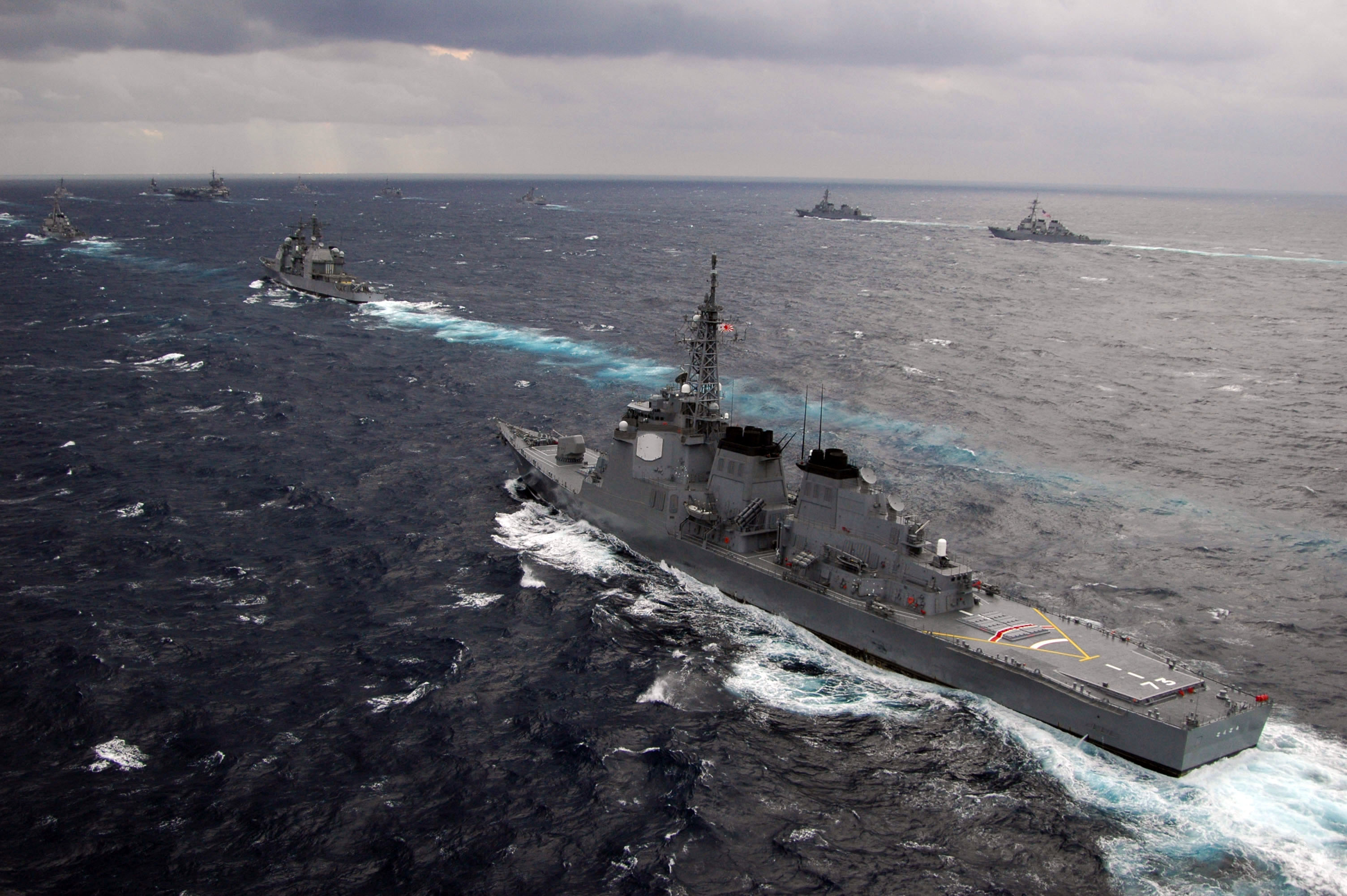 Pacific Ocean (Nov. 15, 2005) - The Japan Maritime Self-Defense Force (JMSDF) destroyer JDS Kongou (DDG 173) sails in formation with other JMSDF ships and ships assigned to the USS Kitty Hawk Carrier Strike Group. The Kitty Hawk Carrier Strike Group is currently conducting the bilateral Annual Exercise 2005 (ANNUALEX) with Japan Maritime Self-Defense Force. ANNUALEX focuses on improving the military-to-military relationship between the U.S. and Japan. The purpose of ANNUALEX is to improve bilateral interoperability, defend Japan against maritime threats and to improve capability for surface warfare, air defense and undersea warfare. U.S. Navy photo by Chief Photographer's Mate Todd Cichonowicz (RELEASED)